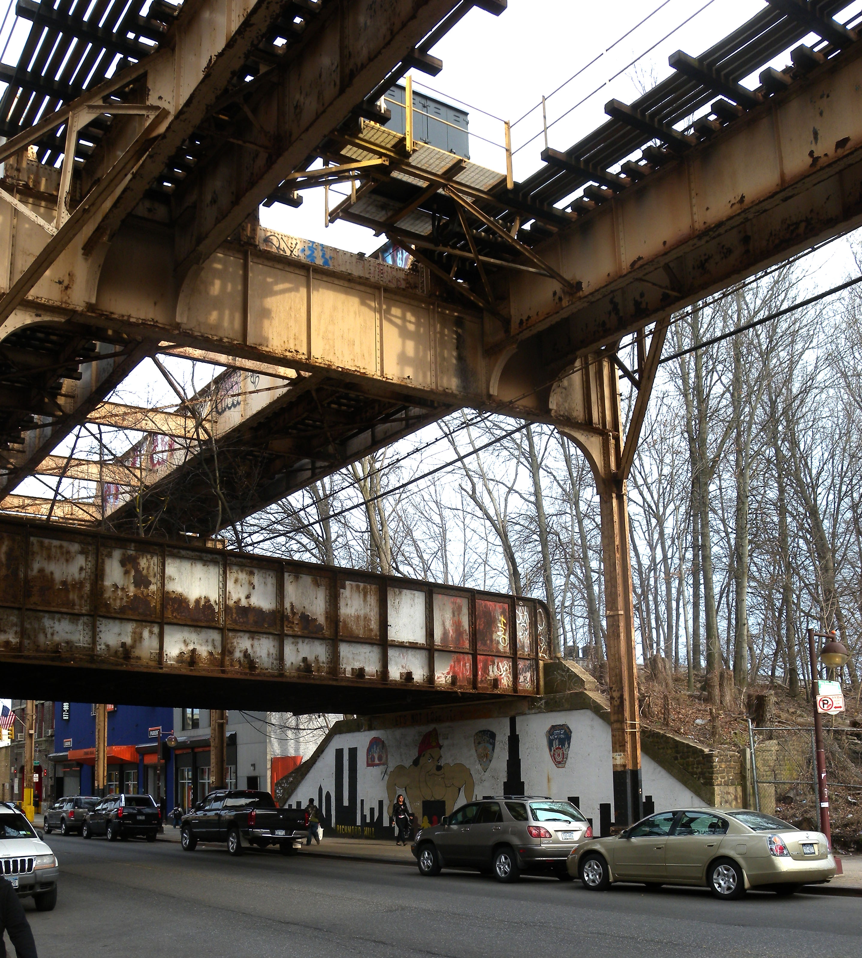 Looking southeast across Jamaica Avenue at BMT line crossing RBB, which in turn crosses the Avenue; site of the former Brooklyn Manor (LIRR station) on a cloudy afternoon.